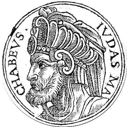 Juda Maccabaeus